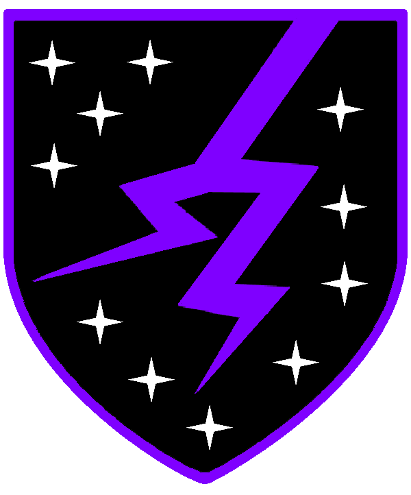 Coat of Arms of House Dondarrion from Blackhaven